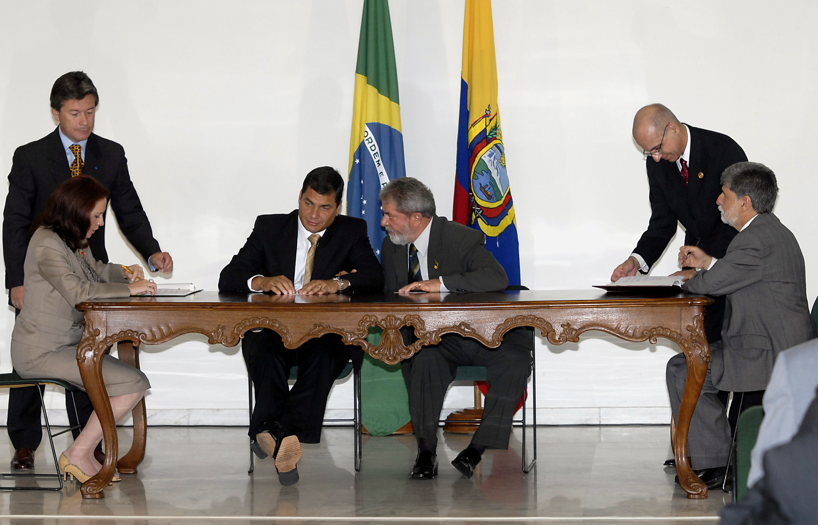 Foreign Ministers of Brazil and Ecuador sign treaties in the presence of respective Presidents.